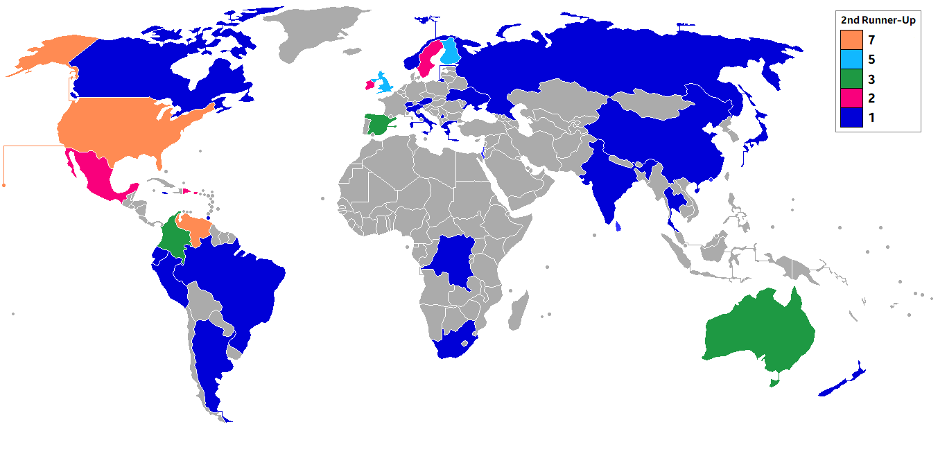 Map showing the 2nd runner-up titles in the Miss Universe participant countries and territories.